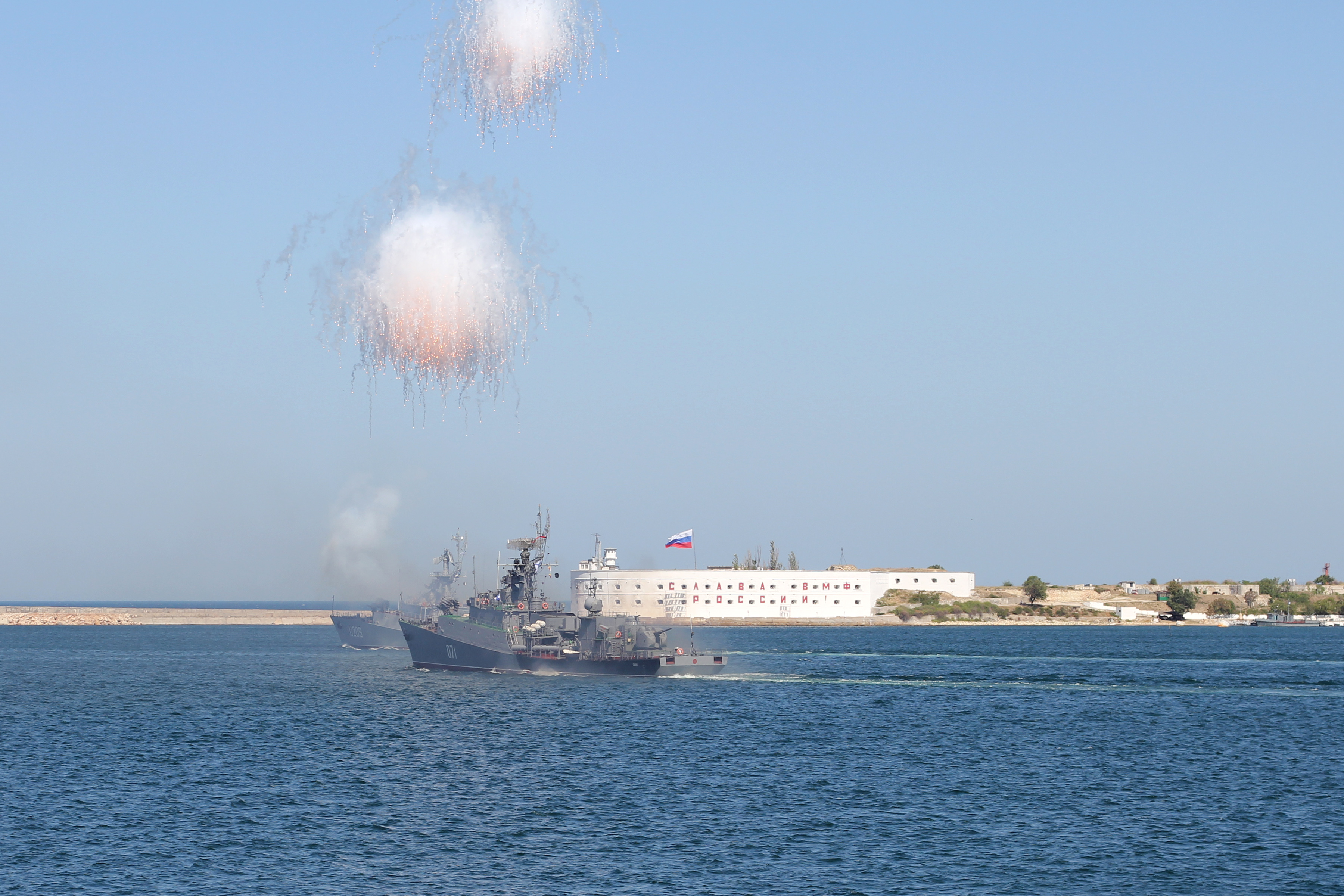 Joint celebration of The Navy Day in Russia and Ukraine. Sevastopol bay. Dress rehearsal. Salute.